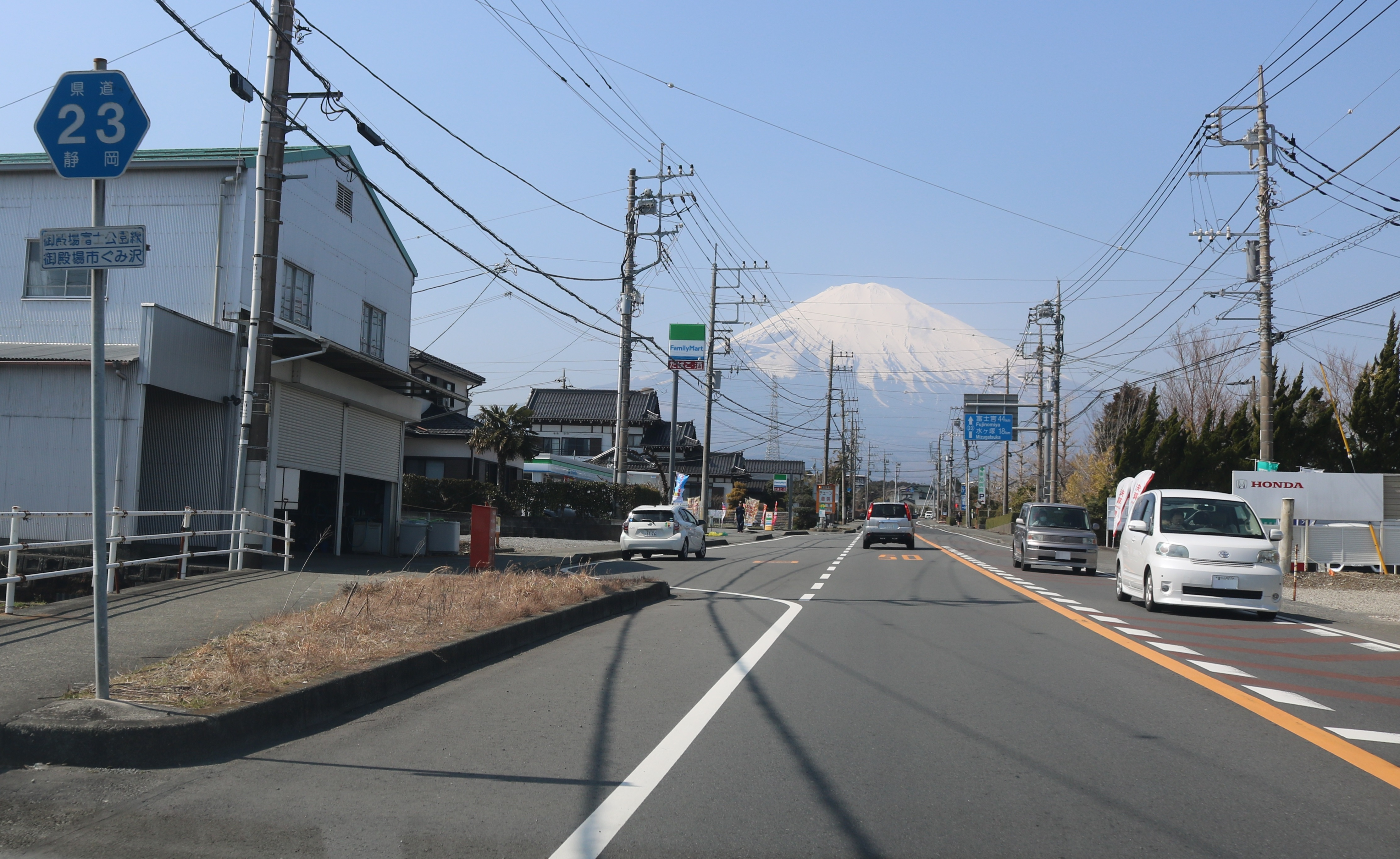 Shizuoka Prefectural Road Route 23 and Mount Fuji in Gumizawa, Gotemba, Shizuoka Prefecture, Japan. Canon EOS Kiss X8i